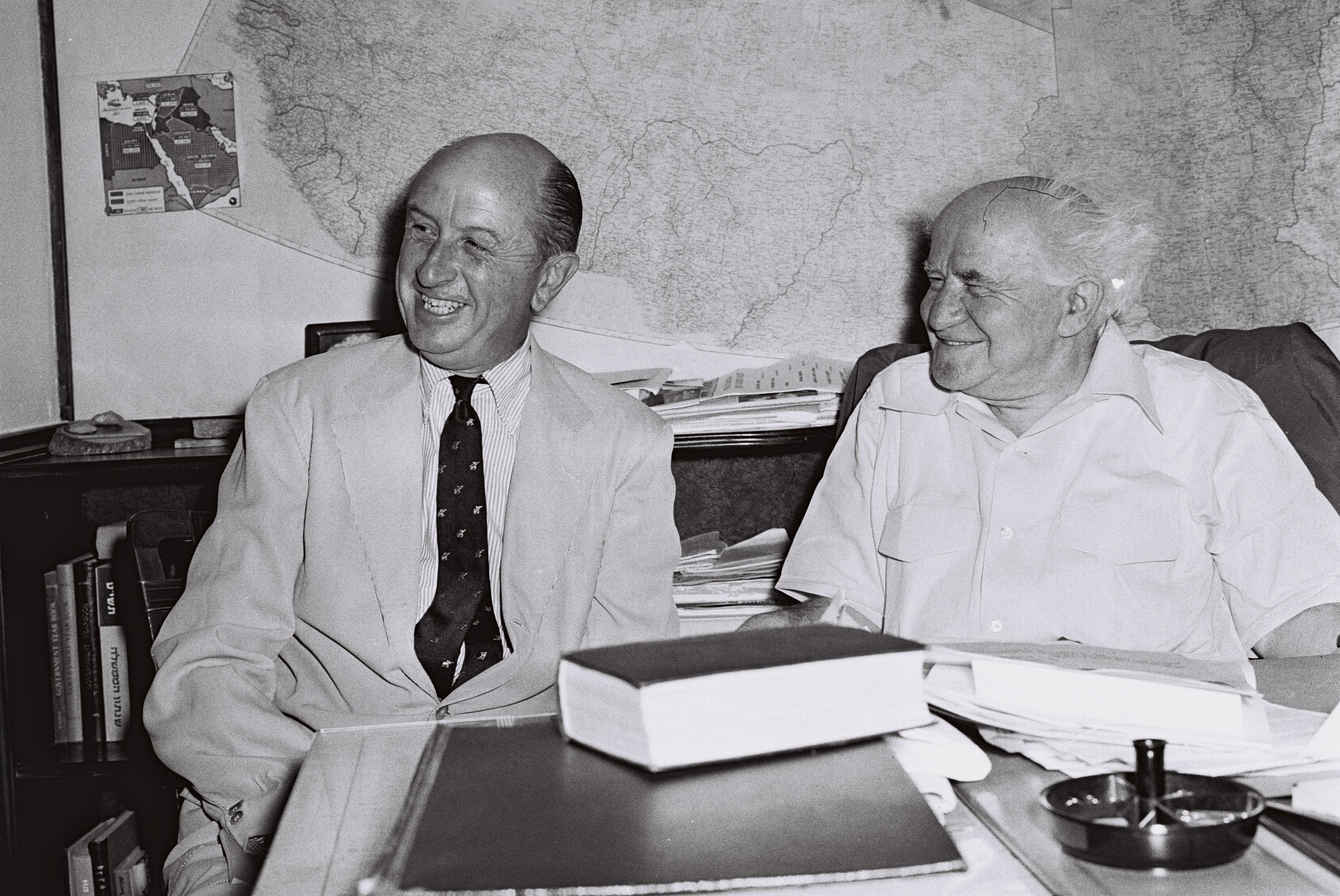 WORLD BANK PRES. EUGENE BLACK, HEAD OF A WORLD BANK STUDY MISSION TO ISRAEL, CALLS ON PRIME MIN. DAVID BEN GURION IN JERUSALEM